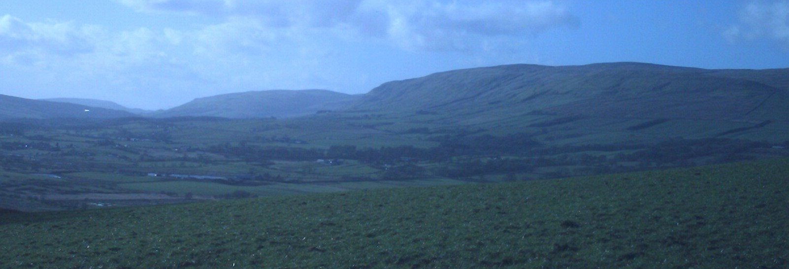 Campsie Fells near Twechar